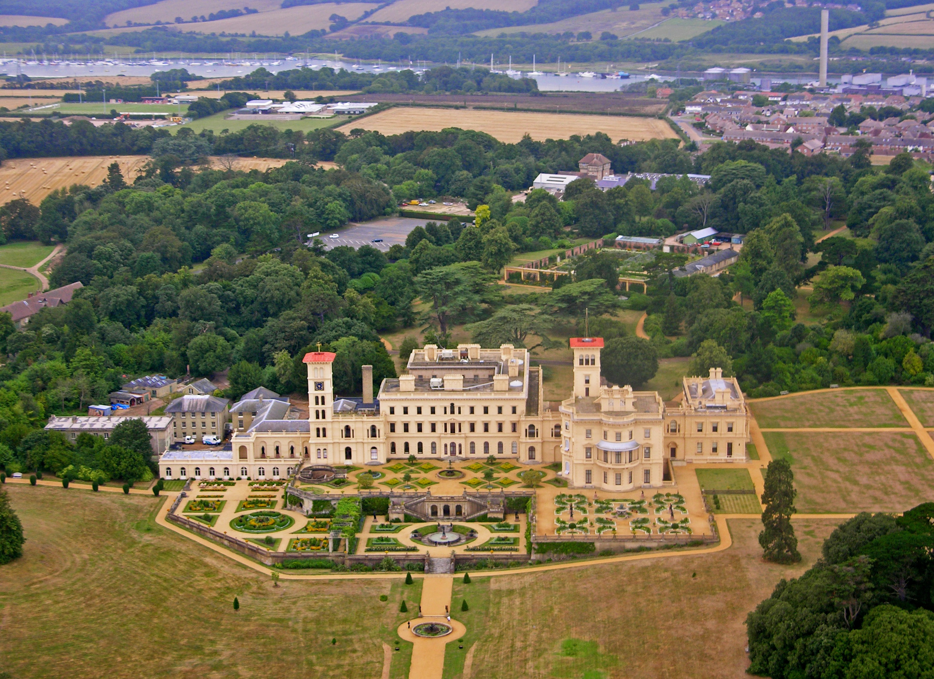 OSBORNE HOUSE from the air Wikidata has entry Q565155 with data related to this building.